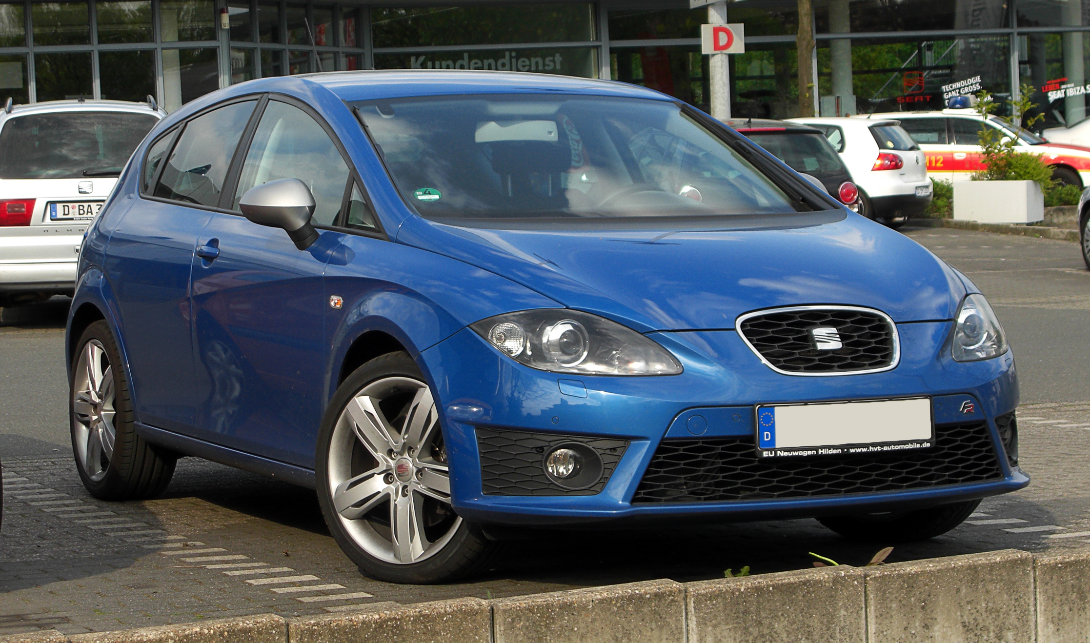 Seat Leon FR (1P, Facelift)